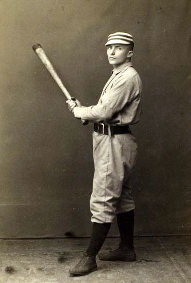 Tommy McCarthy, Boston Reds, Albumen Print